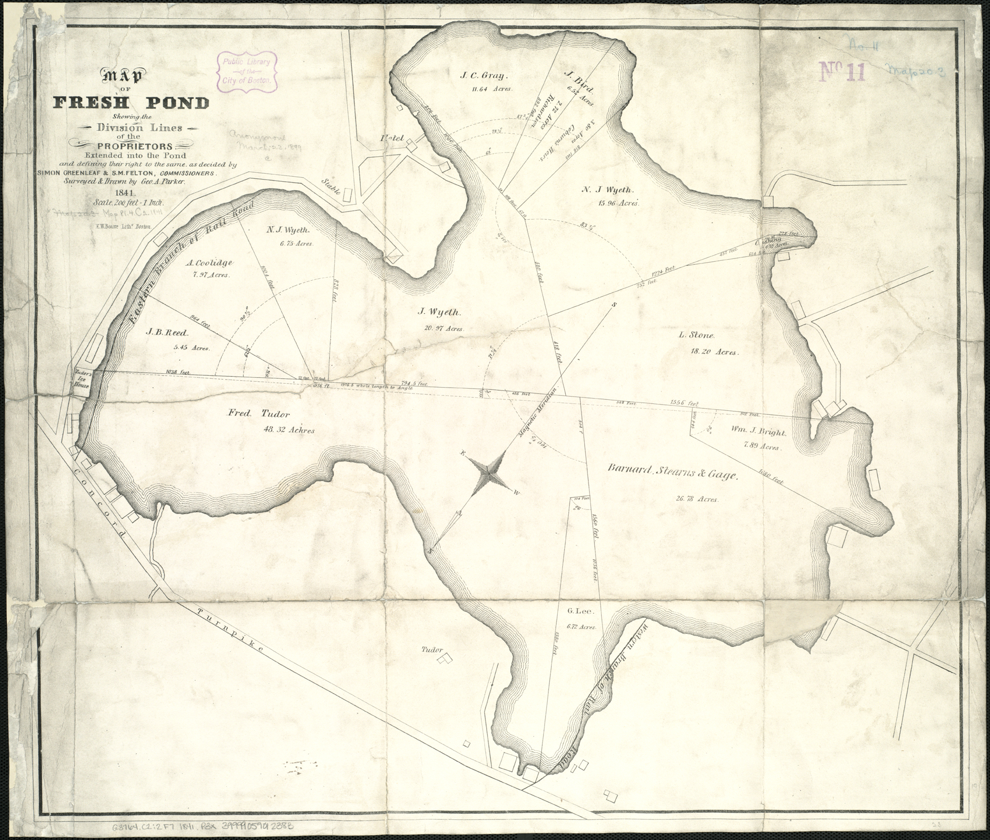 Map of Fresh Pond, showing the division lines of the proprietors extended into the pond and defining their right to the same as decided by Simon Greenleaf & S.M. Felton, commissioners